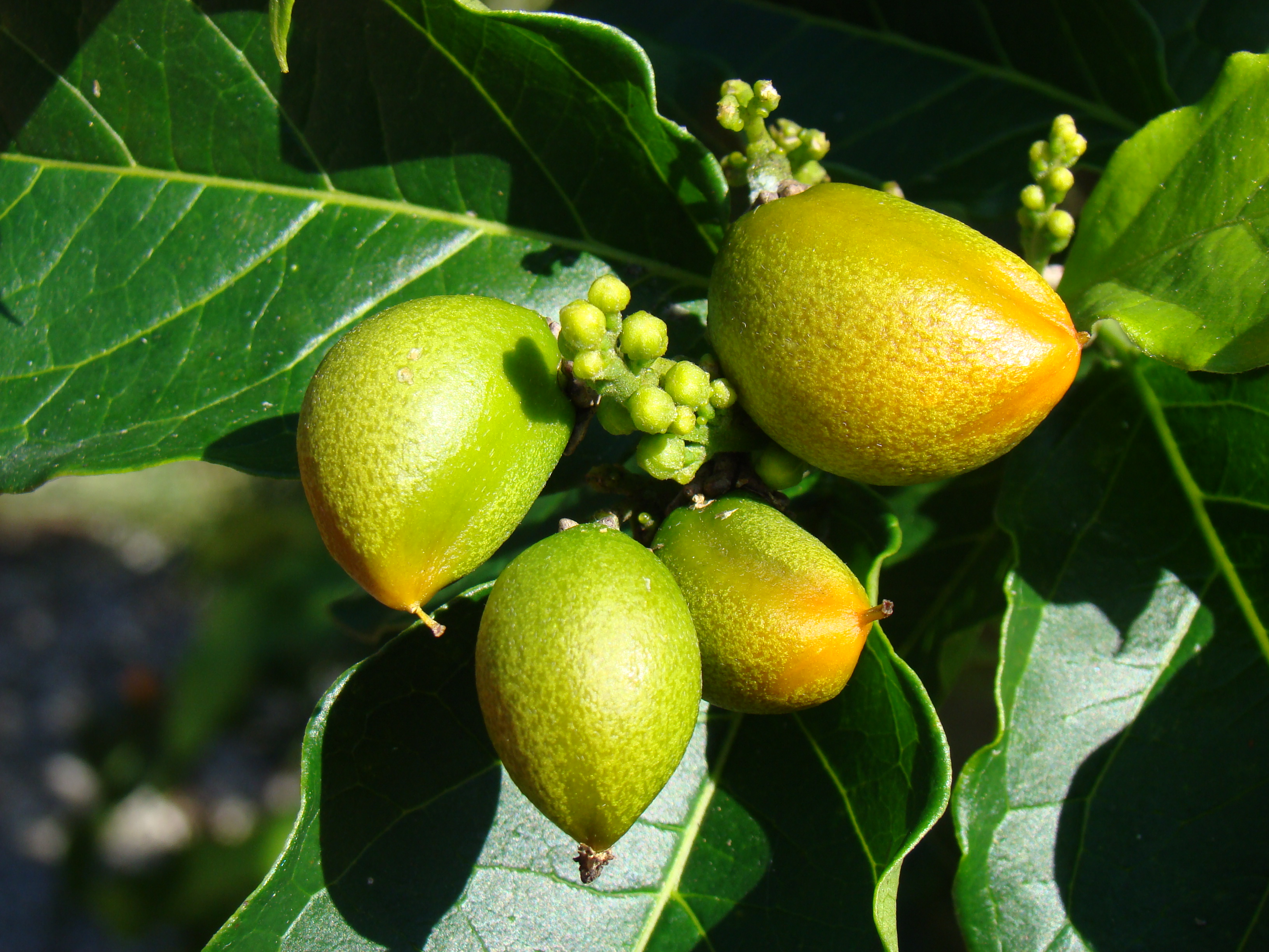 Fruits of the Peanut Butter Fruit (Bunchosia argentea / Malpighiaceae) tree at ECHO (Educational Concerns for Health Organization), Ft. Myers, Florida.